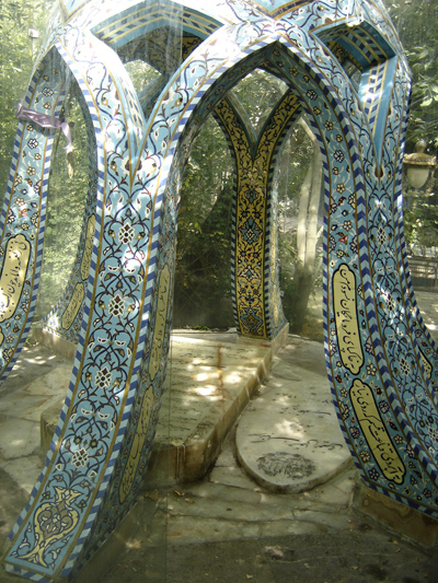 Tomb of Rahi Mo'ayyeri, famous contemporary poet and musician from Iran. Photo by Zereshk, using Sony 5.1 Mega Pixel camera.